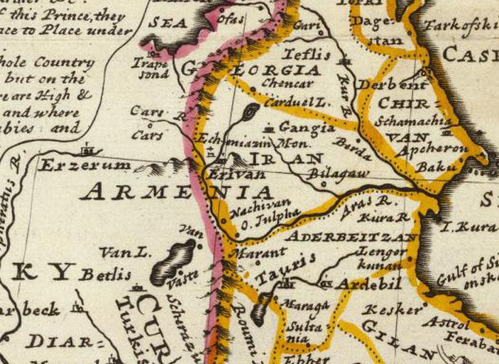 Persia, Caspian Sea, part of Independent Tartary. By H. Moll Geographer. (Printed and sold by T. Bowles next ye Chapter House in St. Pauls Church yard, & I. Bowles at ye Black Horse in Cornhill, 1736)